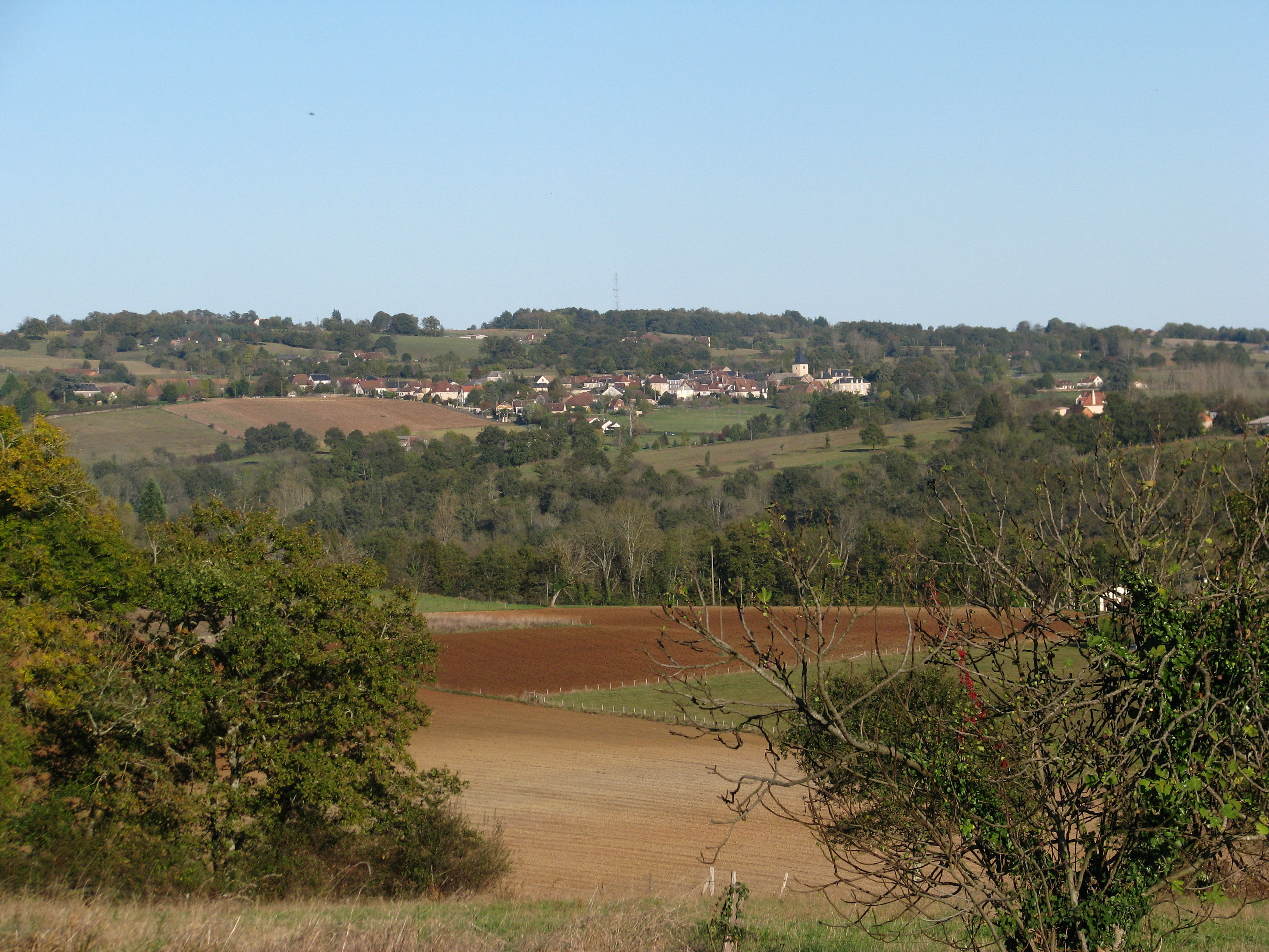 Génis, Dordogne, France